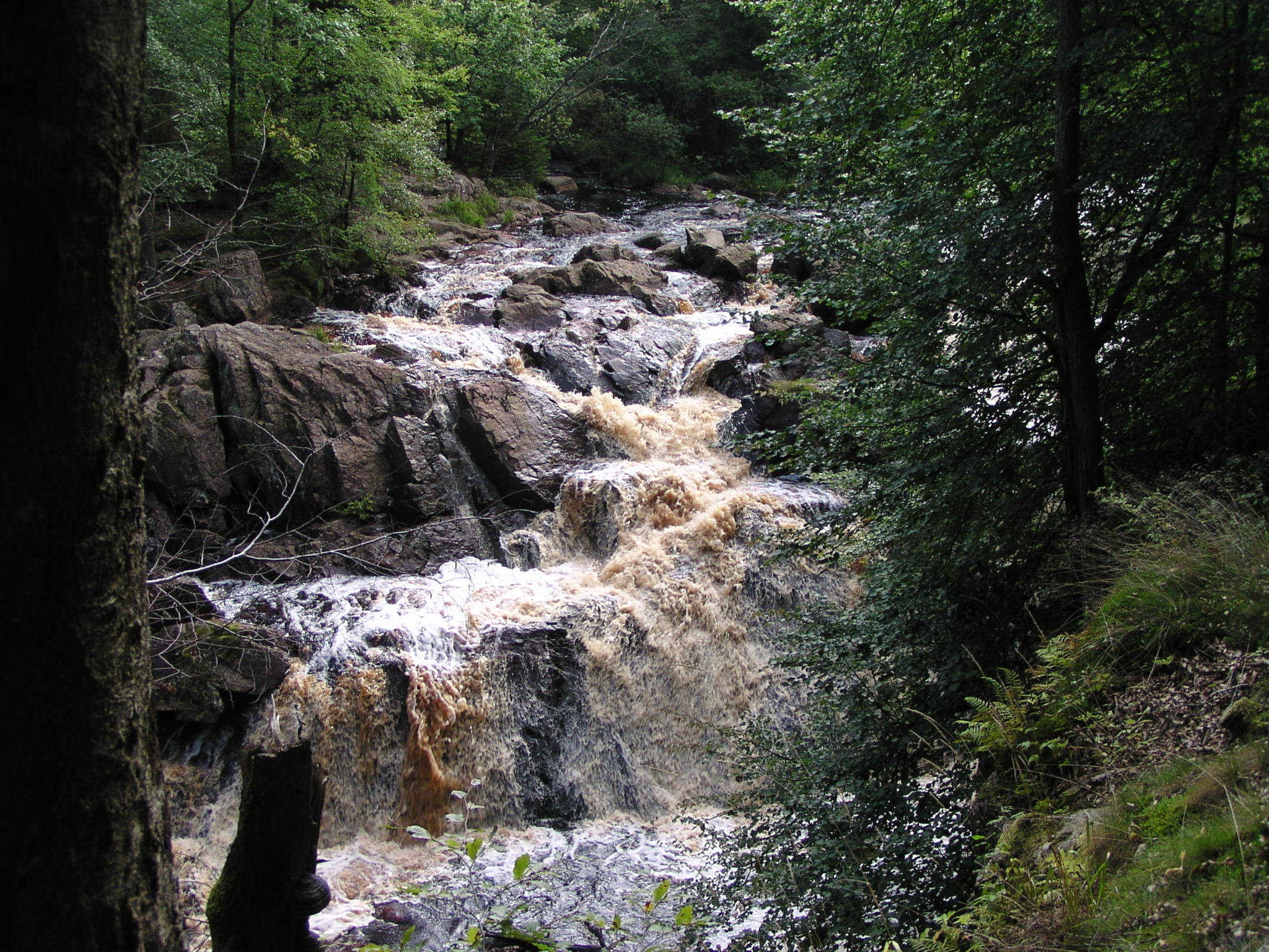 The waterfall 'Danish Fall' (Danska Fall) in Assman in Sweden